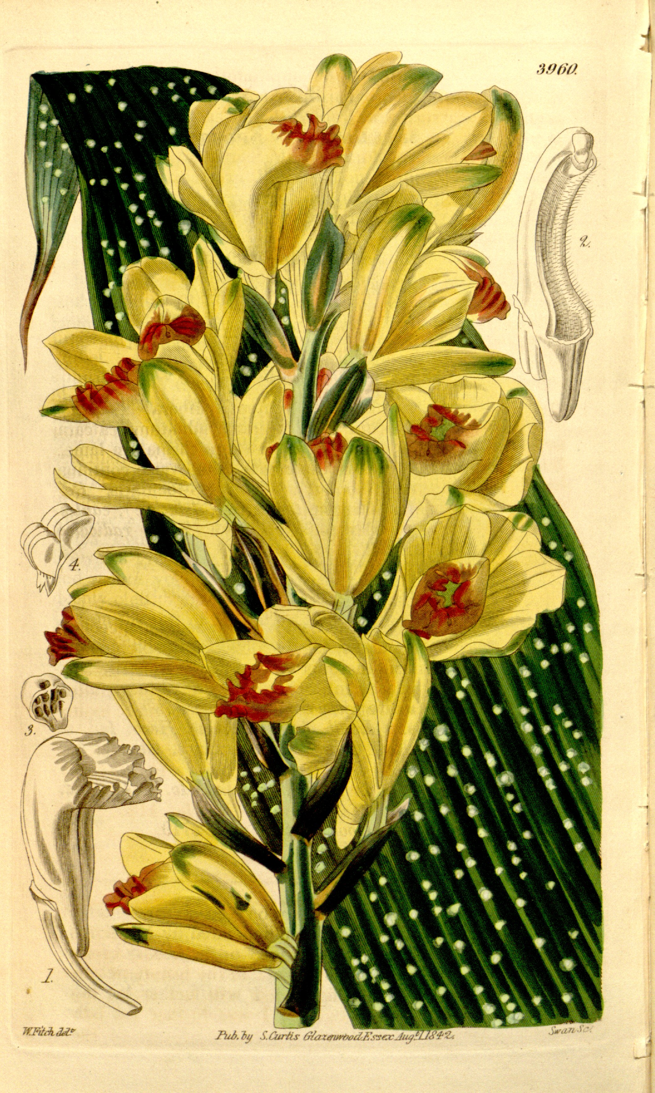 Illustration of Phaius flavus (as syn. Phaius maculatus)